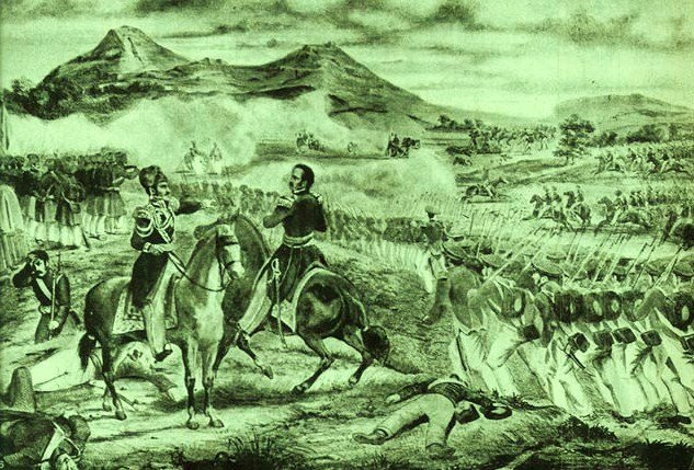 Litography of the Battle of Famaillá